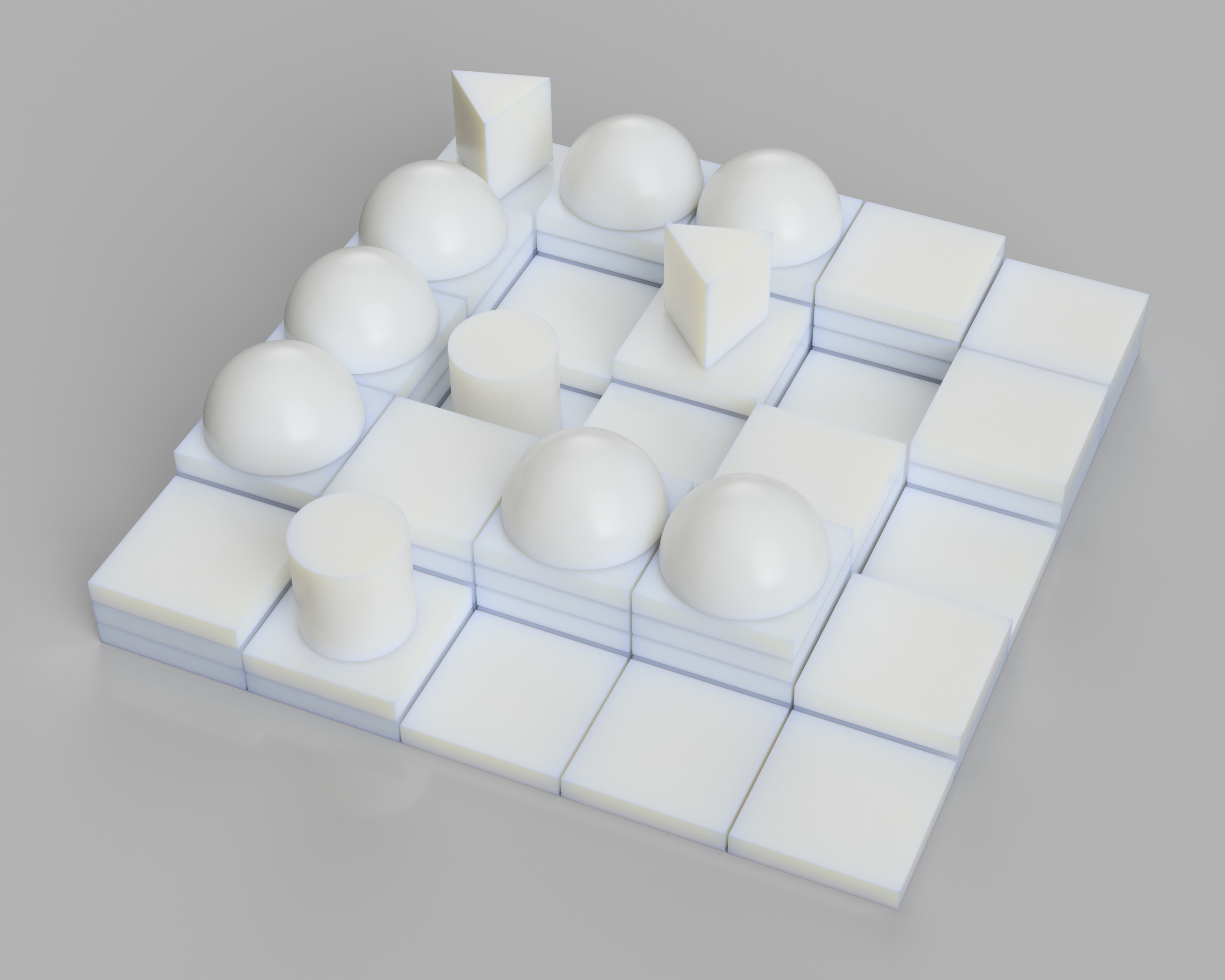 Rendering of the Santorini board game.